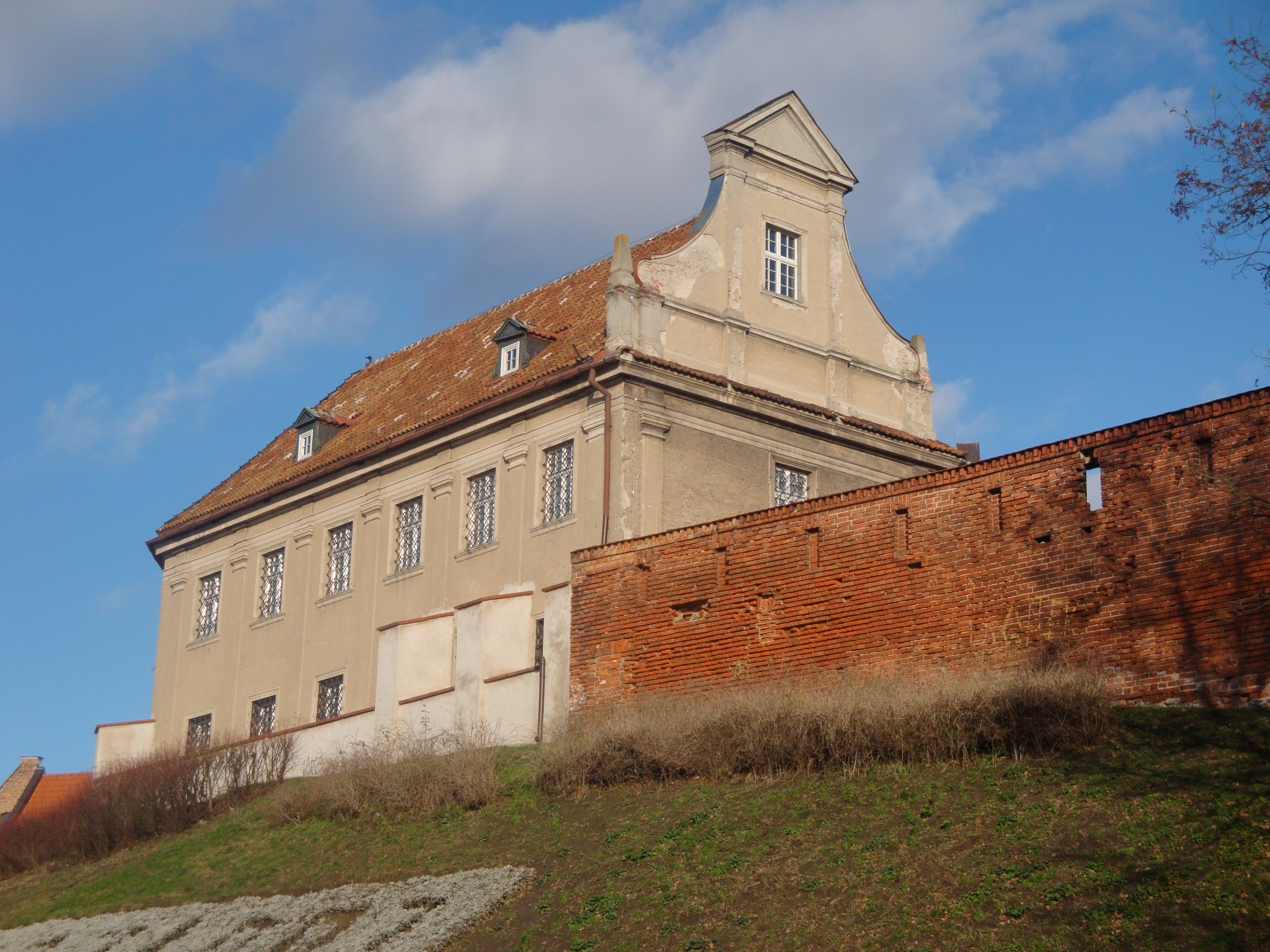 Museum in Grudziądz, Poland, formerly monastery, seen from bank of river Trynka